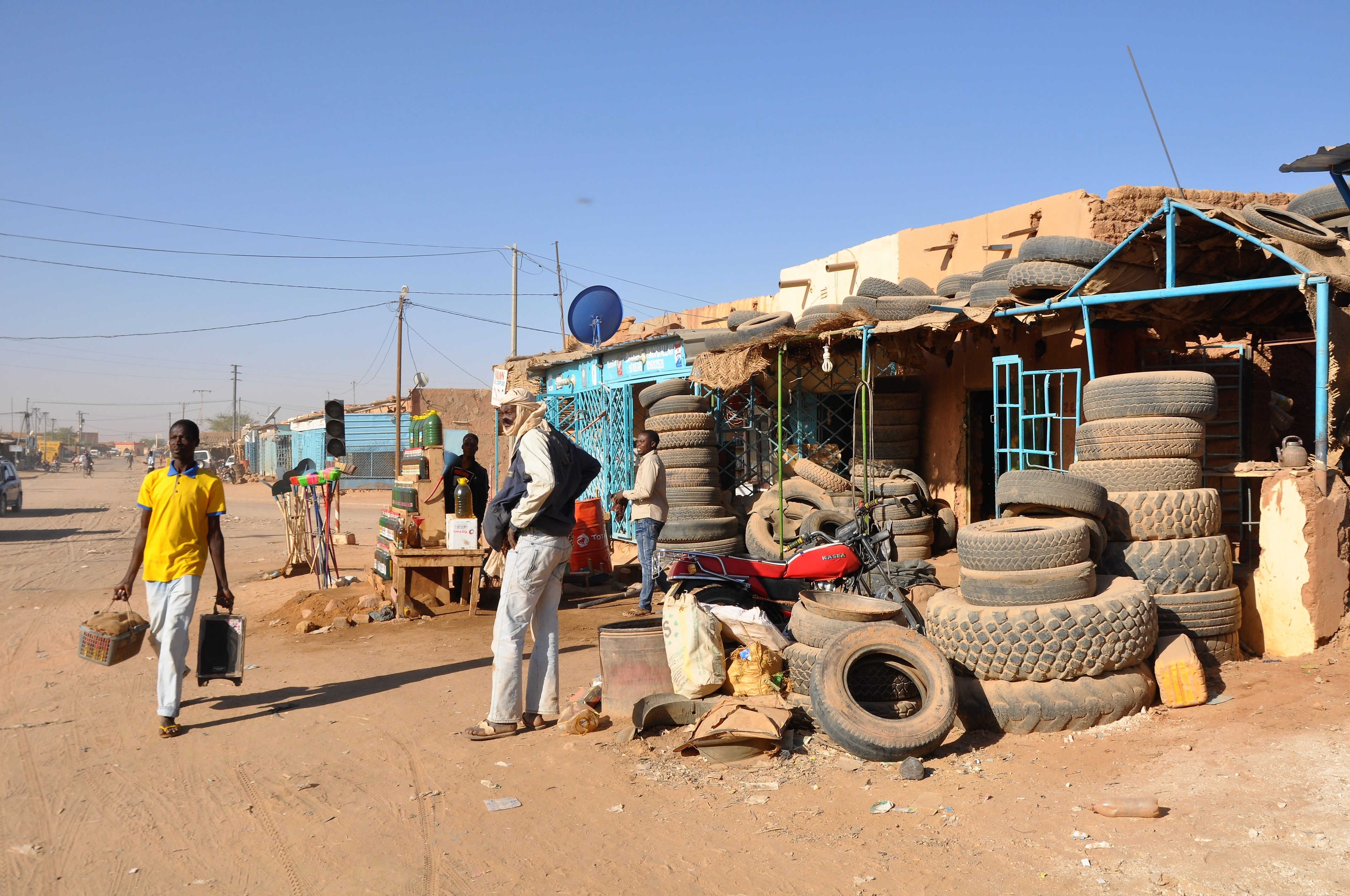 A tire repair shop in of the main streets in Arlit, a large mining town in northern Niger